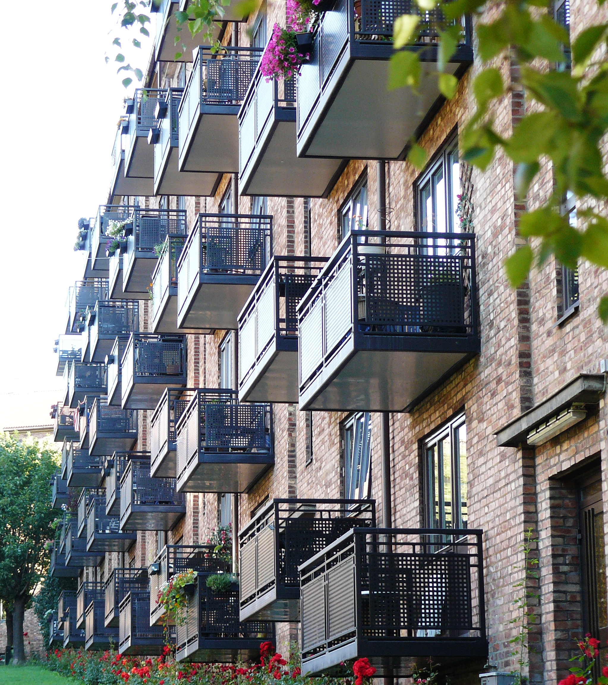 Modern apartments at Kampen community in Oslo, Norway